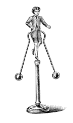 Balancing toy that demonstrates stable equilibrium, from 1905 German scientific equipment catalog. The device consists of two pieces, the balancing figure on tiptoe, and the stand that supports it. It appears that the figure's center of gravity is above the stand, so it should fall over, but if tilted it rights itself, rocking back and forth. In actuality because of the two metal ball weights attached, the figure's center of gravity is located below it's support point, under the surface of the stand. Therefore tilting the figure raises the center of gravity, increasing the potential energy, so it is in stable mechanical equilibrium.